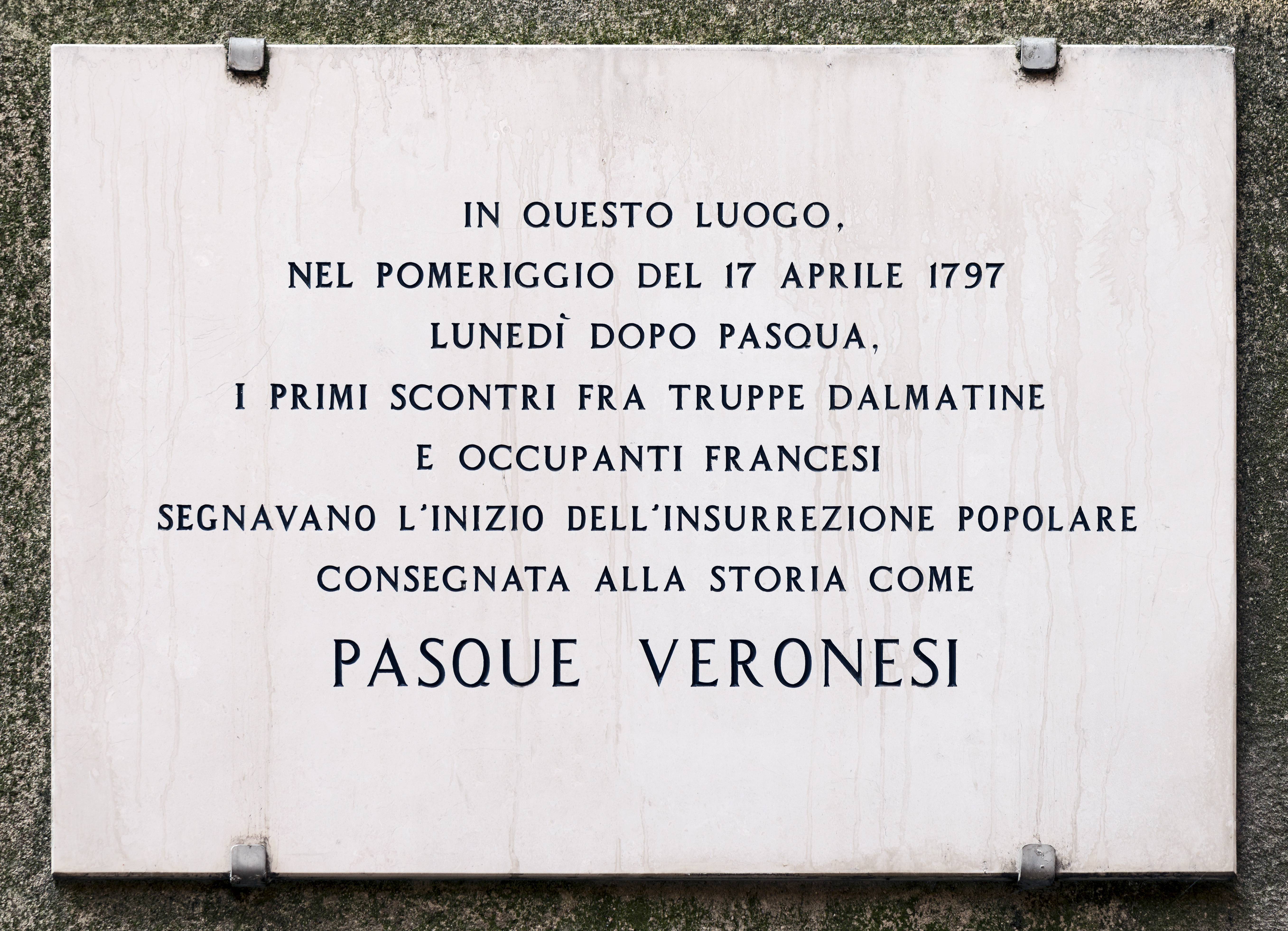 15, Via Mazzanti, Verona. Commemorative plaque at the place where began the Veronese Easters afternoon of April 17, 1797.